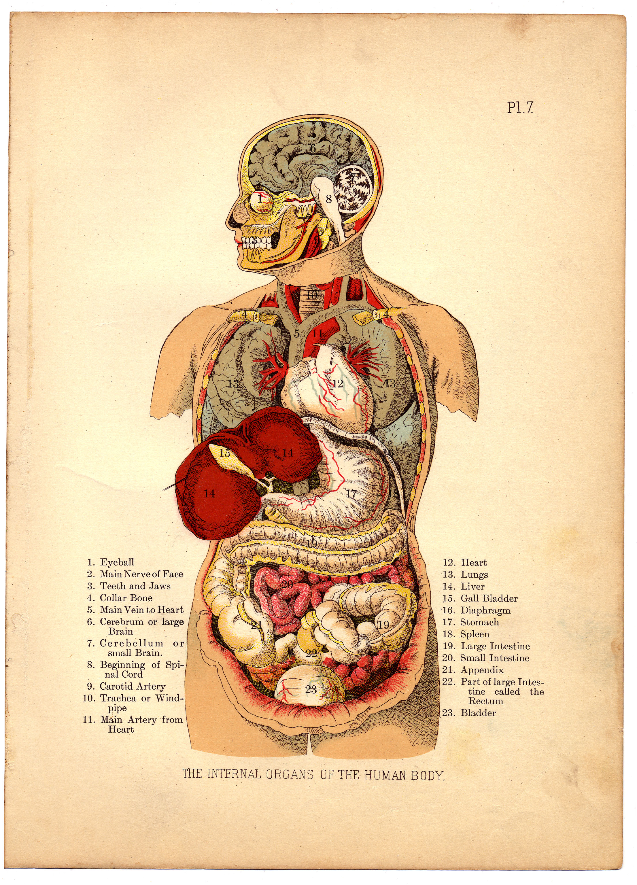 Internal Organs of the Human Body from The Household Physician, 1905